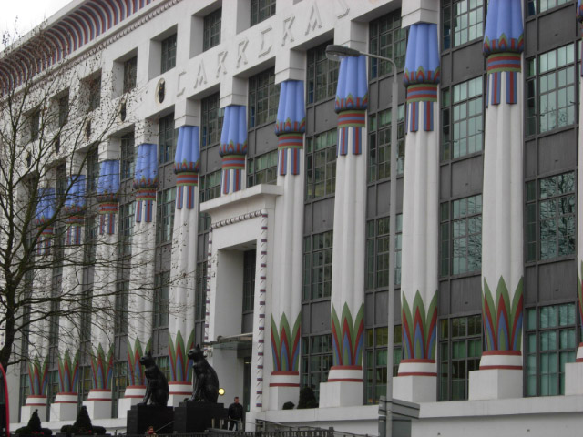 Greater London House, Camden Town This imposing grade II listed building stands on Hampstead Road near Mornington Crescent underground station. It was originally built between 1926 and 1928 as the Carreras cigarette factory (note that the name appears on the front of the building), and was inspired by Tutankhamun's tomb (note the pair of black cats guarding the entrance door). Today it is used as office accommodation and has a figure-of-eight configuration.